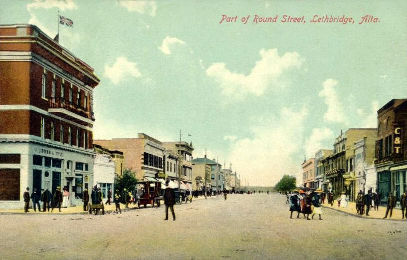 Part of Round Street, Lethbridge, Alberta; from a 1911 postcard published by Stedman Brothers, Ltd., Brantford, Ontario and Winnipeg, Manitoba.